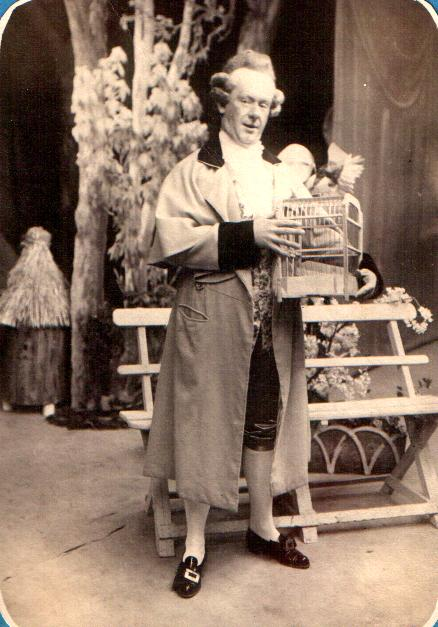 Aleksander Zelwerowicz as Chamberlain in the comedy Mr. Jovial by Aleksander Fredro at the Juliusz Słowacki Theatre in Kraków